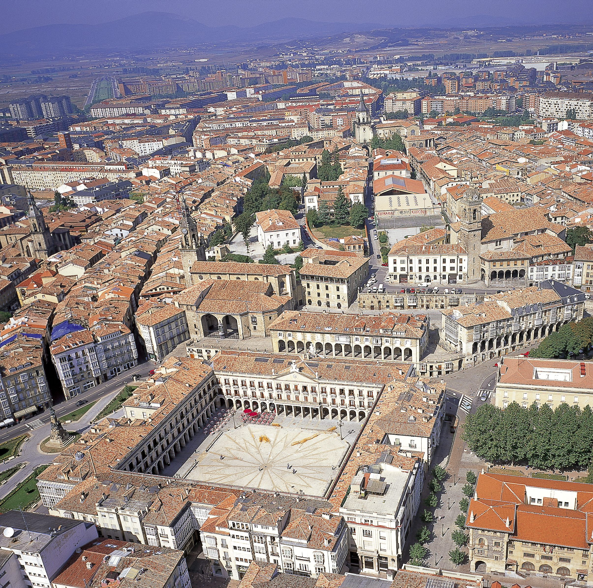 Vitoria-Gasteiz. Araba, Basque Country.